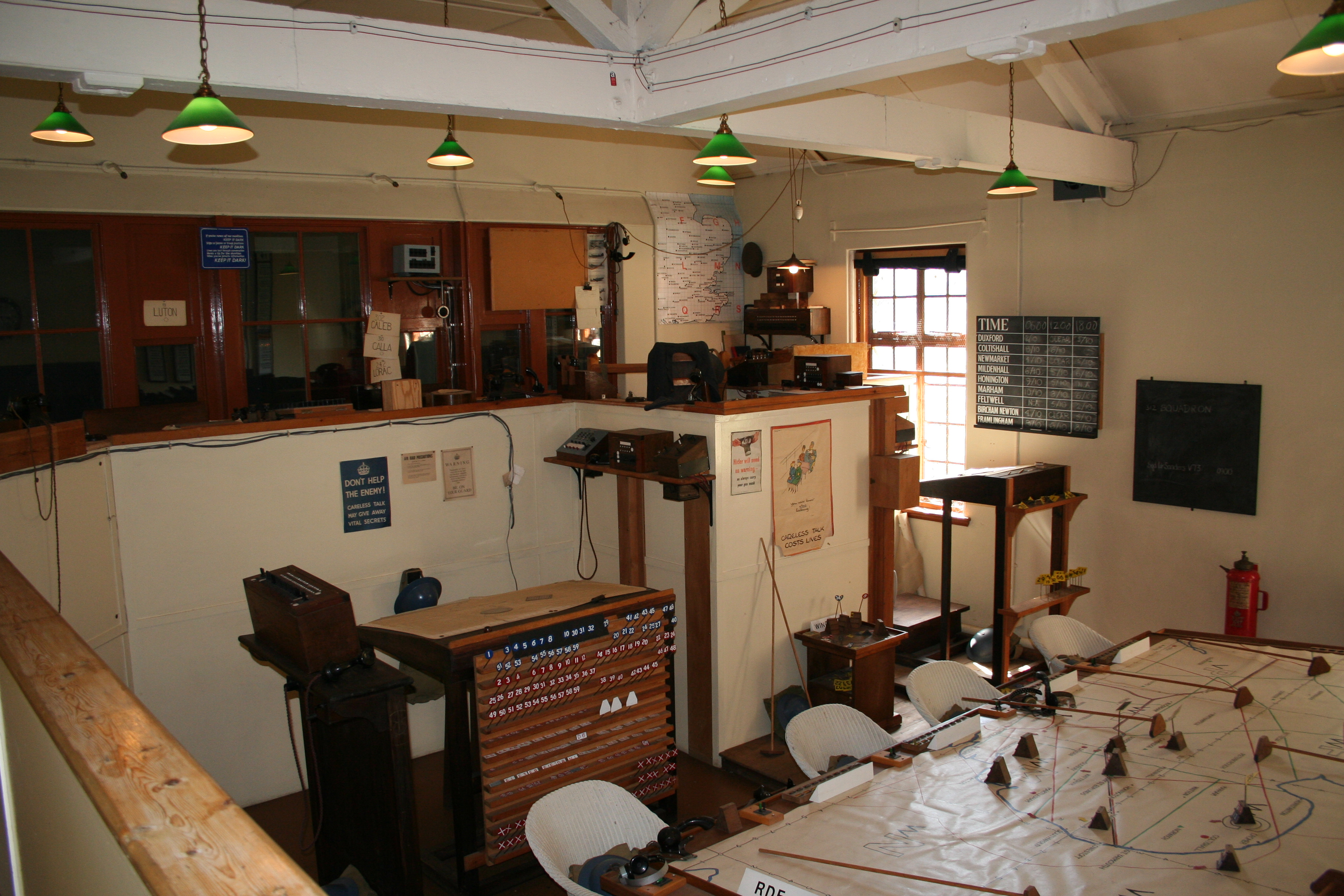 Battle of Britain Operations Room, RAF Duxford